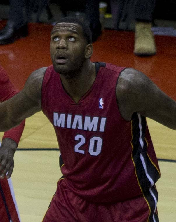 Greg Oden